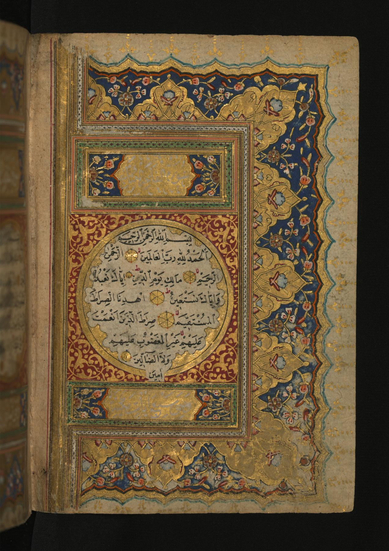 This folio from Walters manuscript W.577 is the right side of this illuminated double-page incipit is the incipit for chapter 1 (Surat al-fatihah). The page is divided into three compartments: an upper and lower panel flanking a central area. In the upper and lower panels the chapter title and number of verses are inscribed in headings in Riqa' script in white ink. In the central area the Qur'anic verses are written in vocalized Naskh script in black ink with reading marks in red. The border contains polychrome trefoils and floral scroll work on a blue ground.